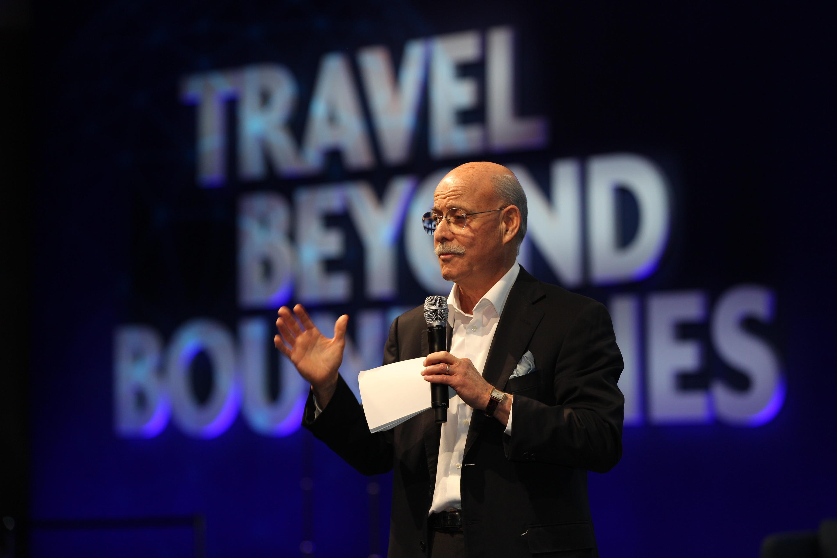 WTTC Global Summit 2016 World Travel & Tourism Council Flickr images